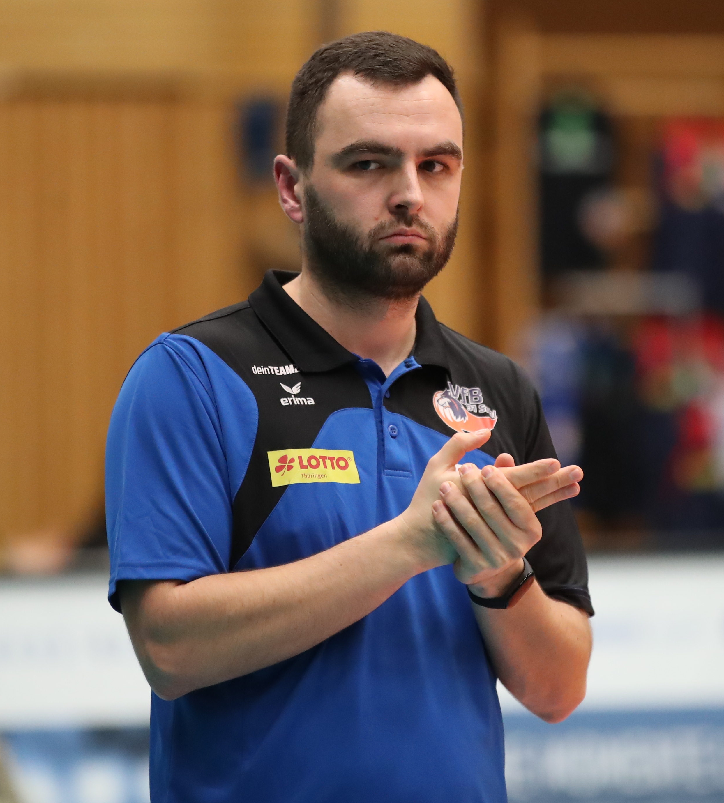 1. German national Volleyball League, match 20161, 2019-12-21, VfB Suhl LOTTO Thüringen vs. Schwarz-Weiss Erfurt 3:0 (25:20, 25:17, 25:19); trainer Mateusz Żarczyński, VfB Suhl LOTTO Thüringen